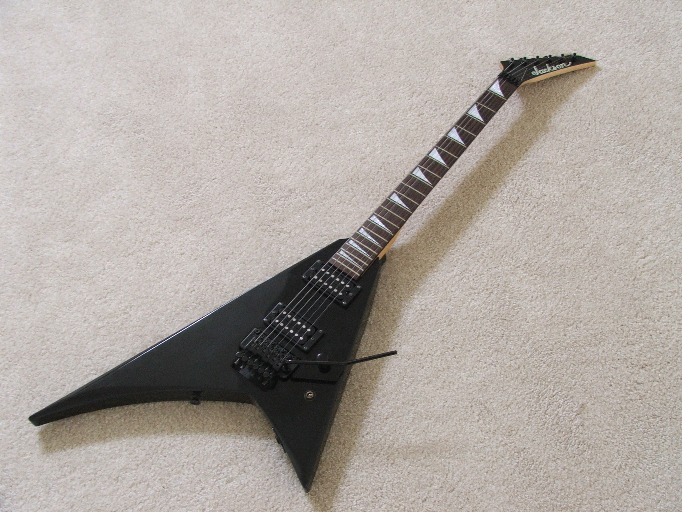 Jackson Randy Rhoads JS20 guitar, made in 1999.